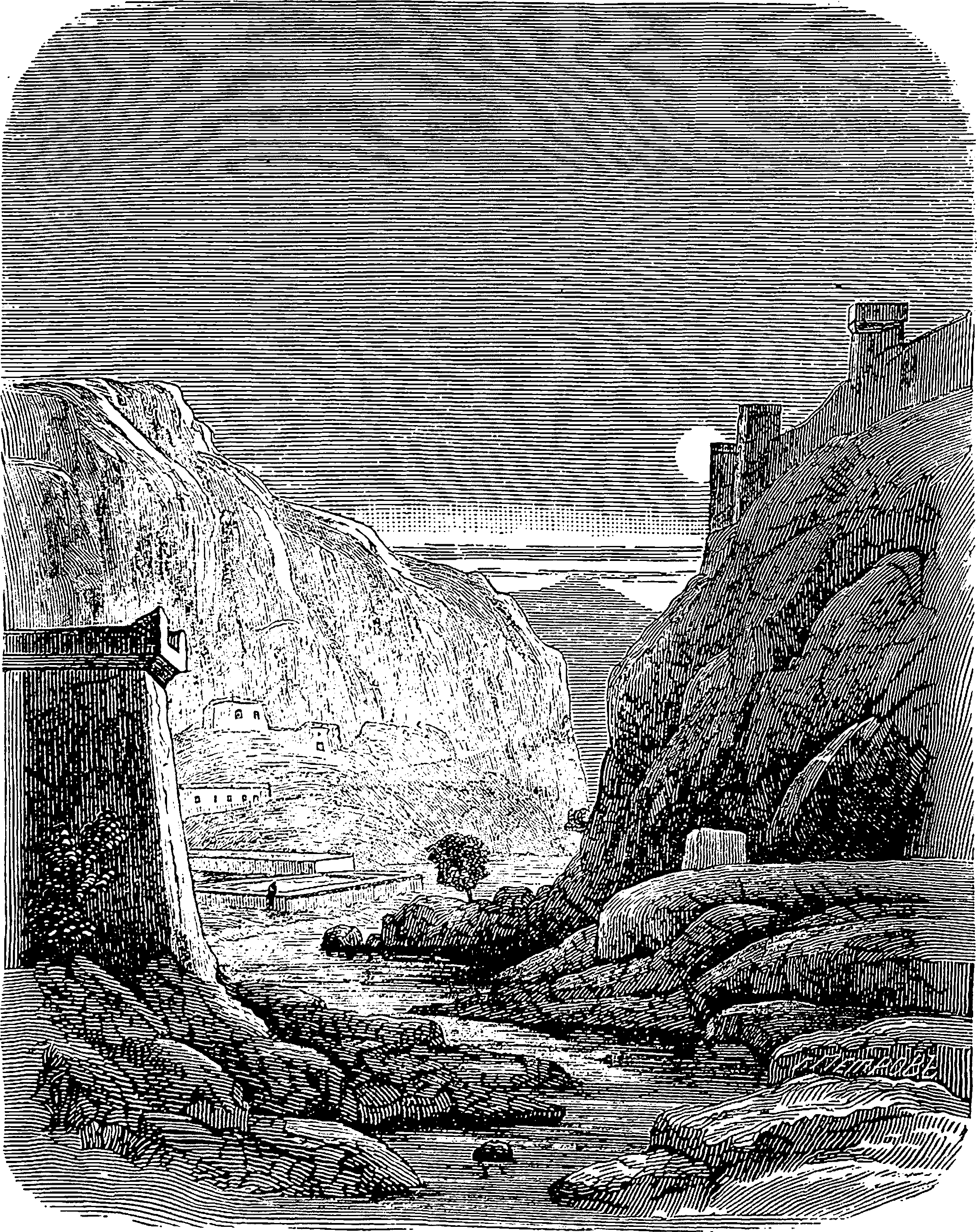 Valley of the son of Hinnom. Picture from popular bible encyclopedia of Archimandrite Nicephorus (1891).